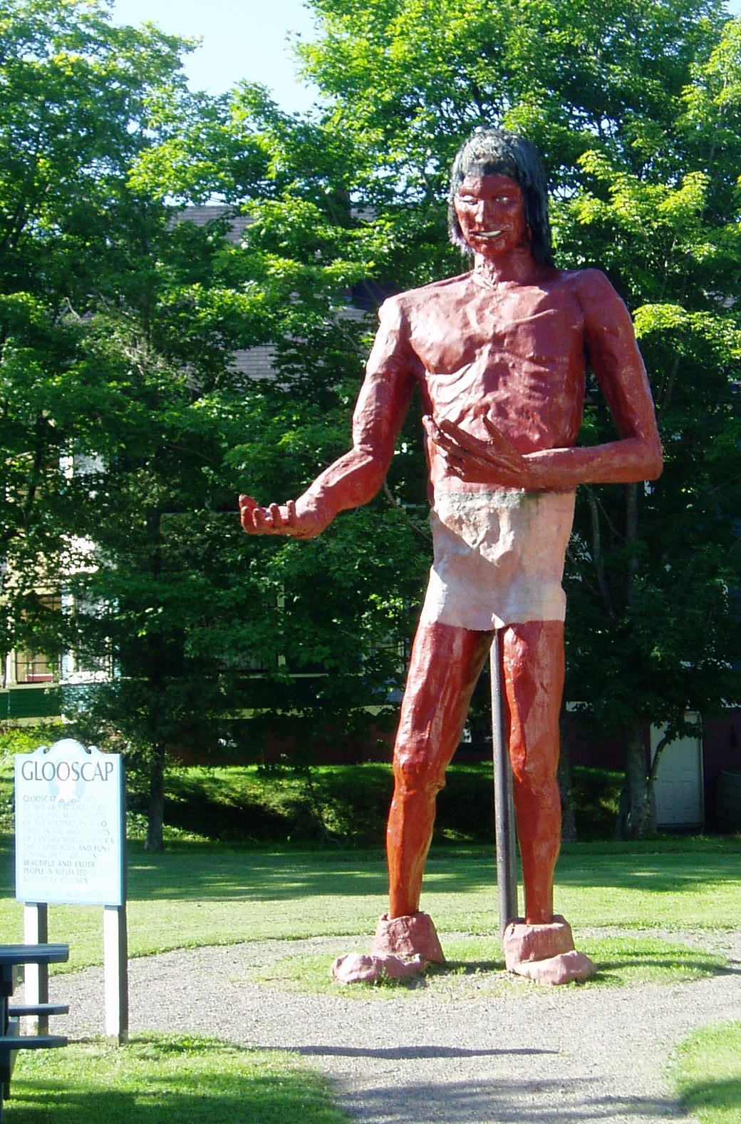 A sculpture of Glooscap in Parrsboro, Nova Scotia/. Taken by SimonP